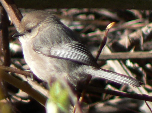 Bushtit